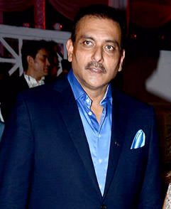 Ravi Shastri at Nimrat Kaur launches the new Audi TT